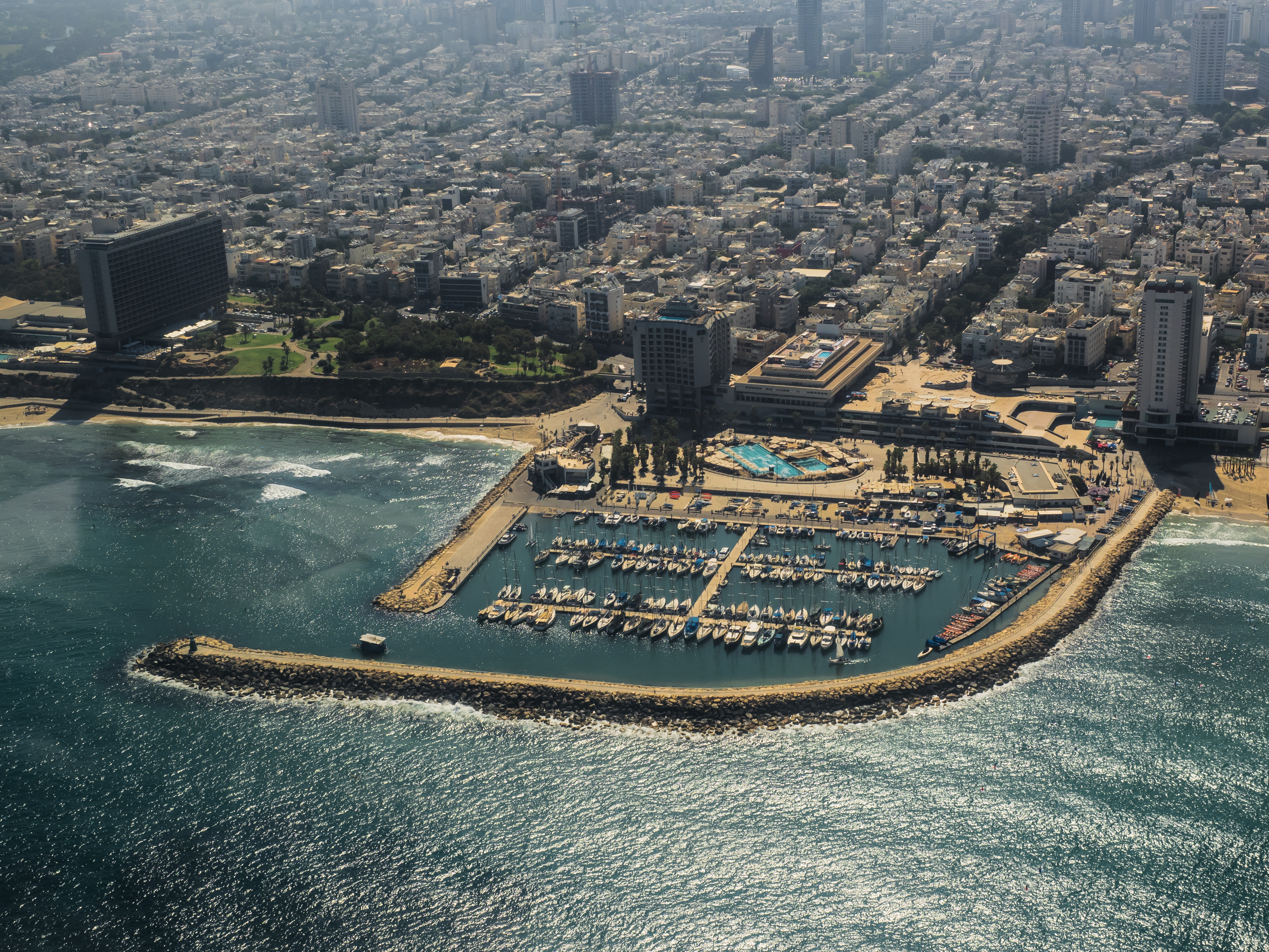 Tel Aviv Marina, aerial photo from the West